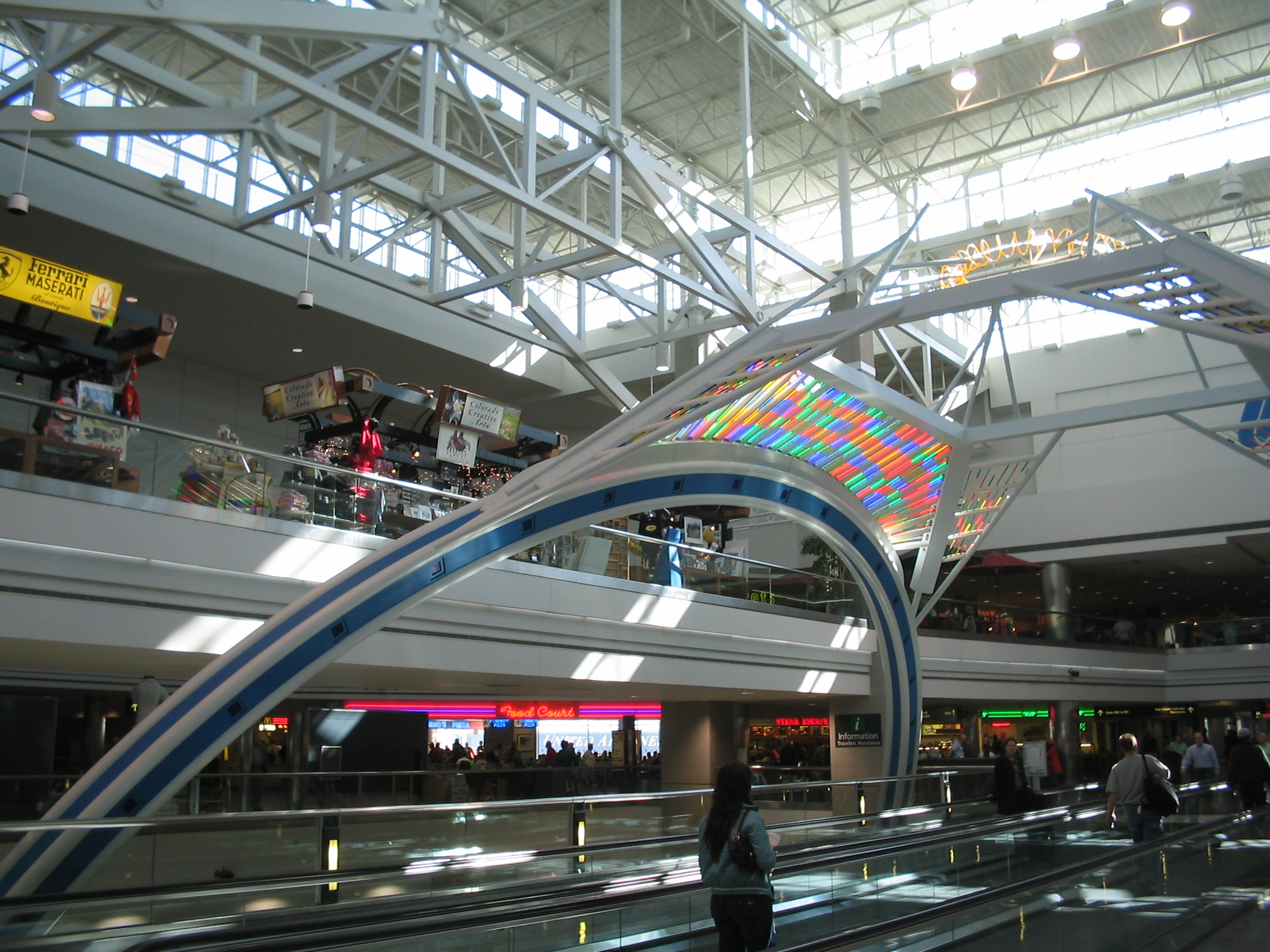 Concourse B at Denver International Airport. See also Image:Denver International Airport, Concourse B.jpg. David Benbennick took this photograph Friday, April 22, 2005 at 9:47 AM (local time).